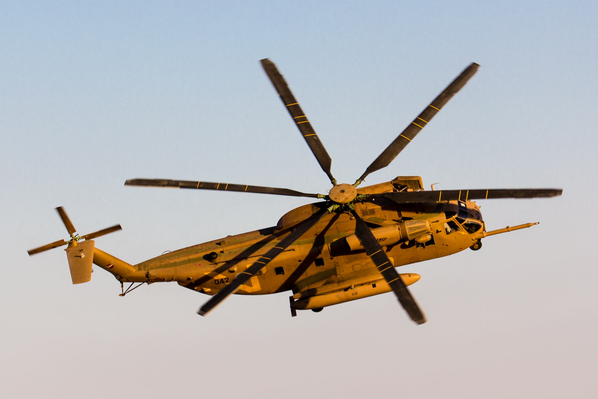 Israeli Air Force 114 Squadron CH-53 Yasur